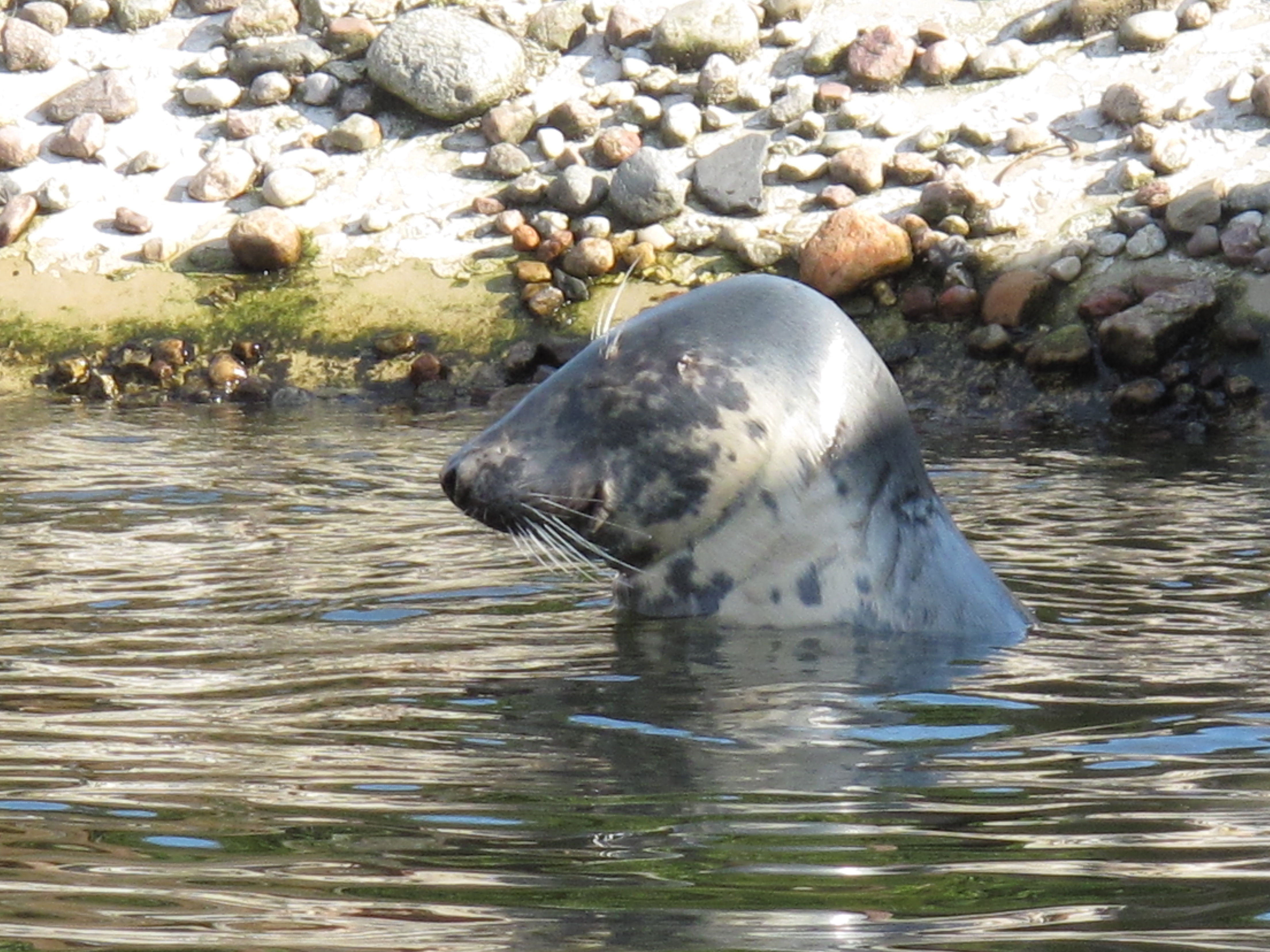 A Grey Seal at the Ratujemy Baltyckie Foki in Hel, Poland.